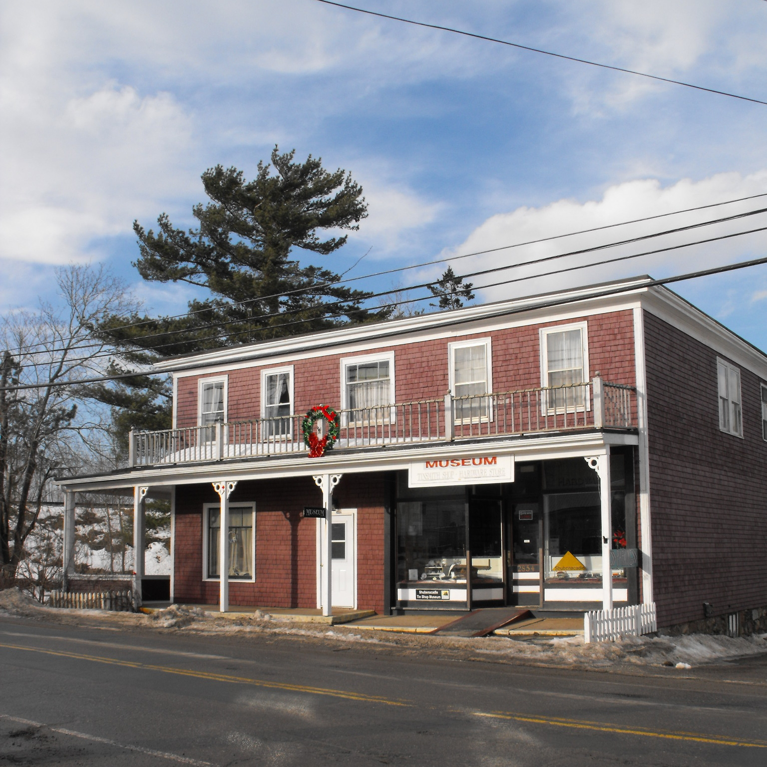 Shubenacadie Tin Shop Museum, Shubenacadie, Nova Scotia